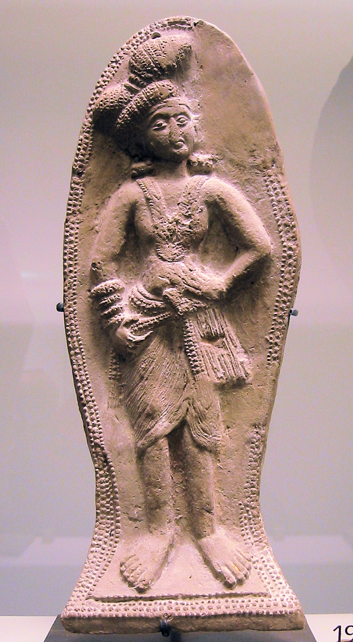 Sunga masculine figurine. Chandraketugarh. Sunga 2nd-1st century BCE. Musée Guimet. Personal photograph.